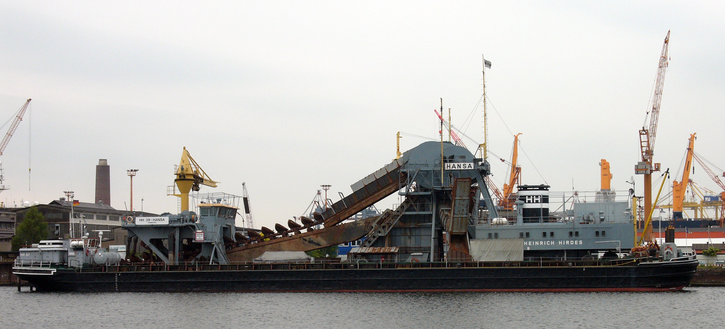 Ship from the North Sea coast, Germany